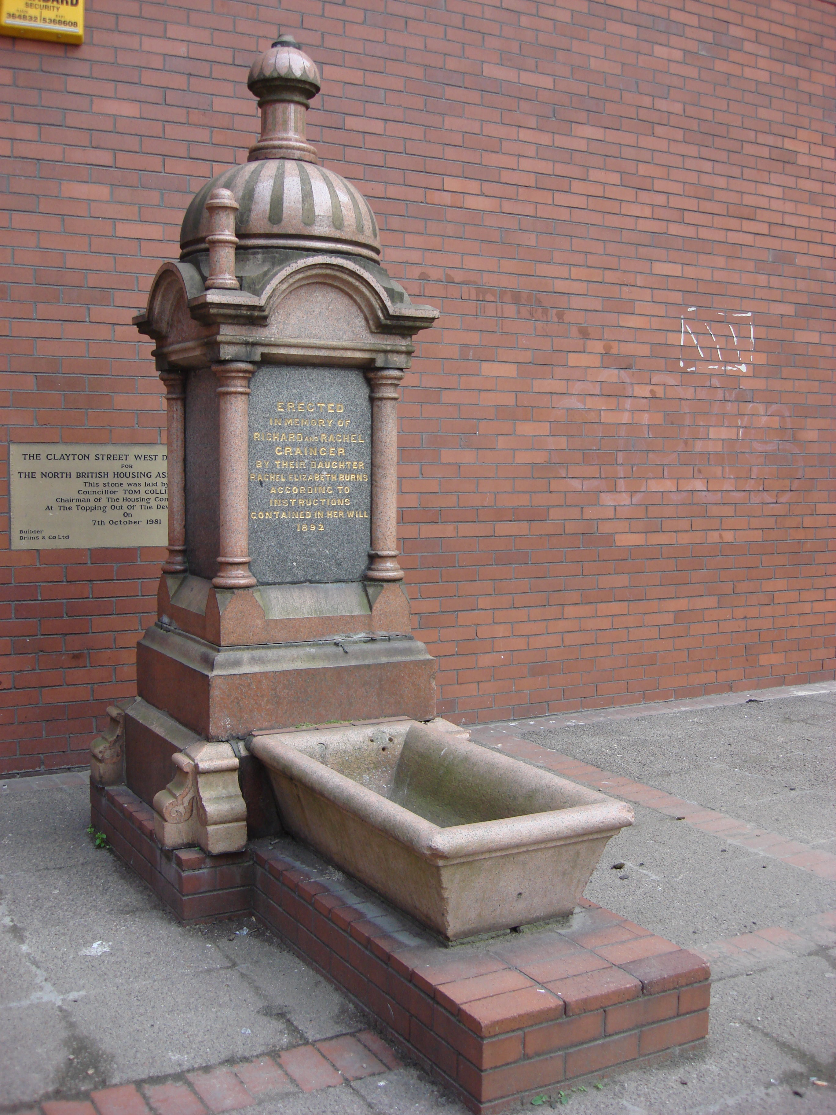 Memorial to Richard Grainger in Grainger Town, Newcastle upon Tyne